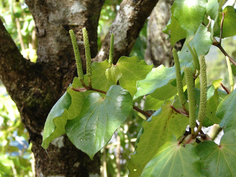 Endemic to New Zealand - small tree, or large shrub. I believe they are leaves and male spikes flowers (?) we see on the photo. (The trunk on the photo is a different tree) Macropiper excelsum Family: Piperaceae Location: Waitakere Ranges Regional Park, west Auckland, New Zealand Infesting information about this plant read here in Flickr : or in wikipedia: Just one fact: The leaves of this plant are used to make Ti-toki Liqueur which is exported to Japan, Australia, Fiji and the United Kingdom. !